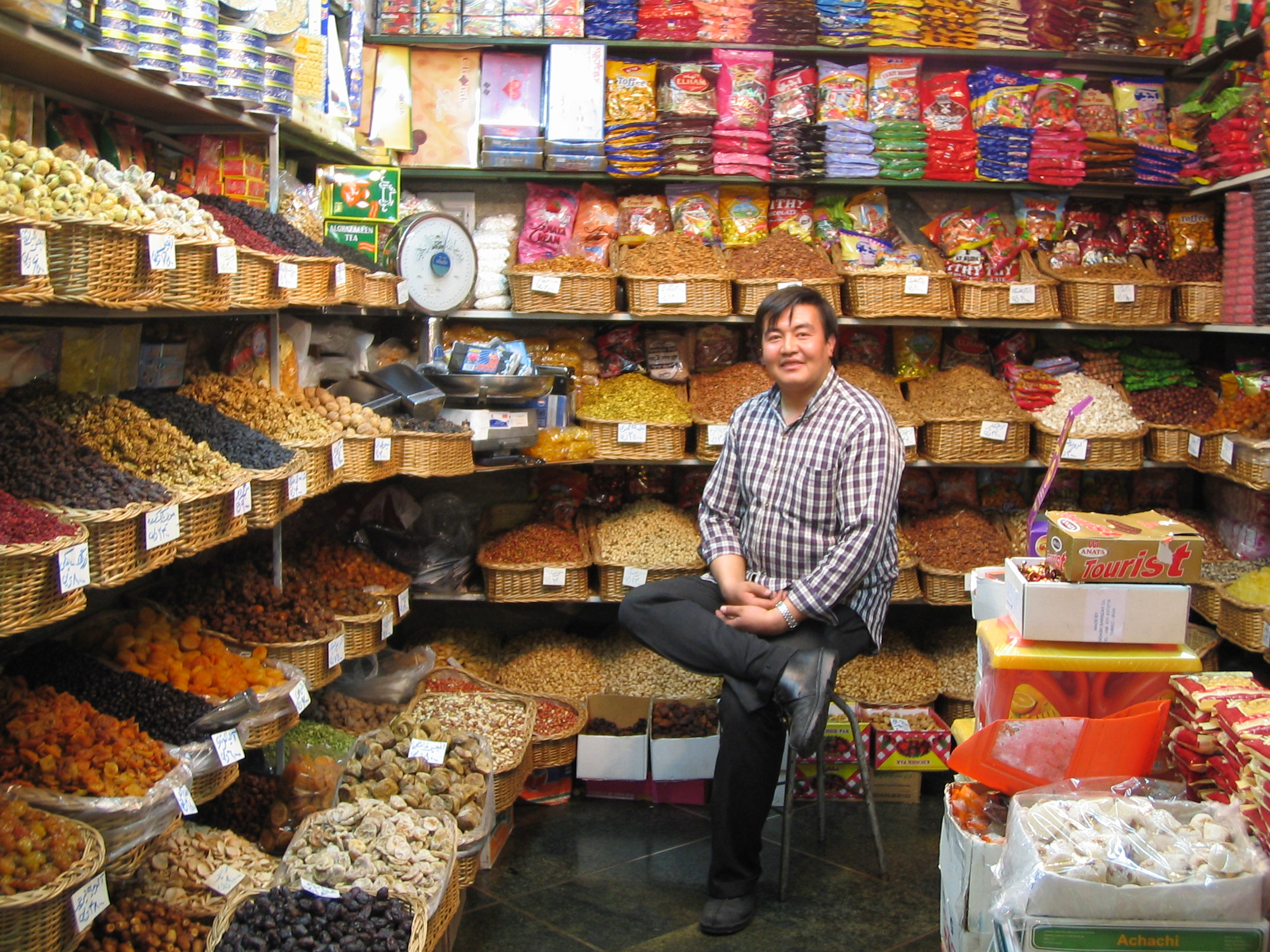 tokhme foroush in Tajrish Bazar, Tehran, Iran